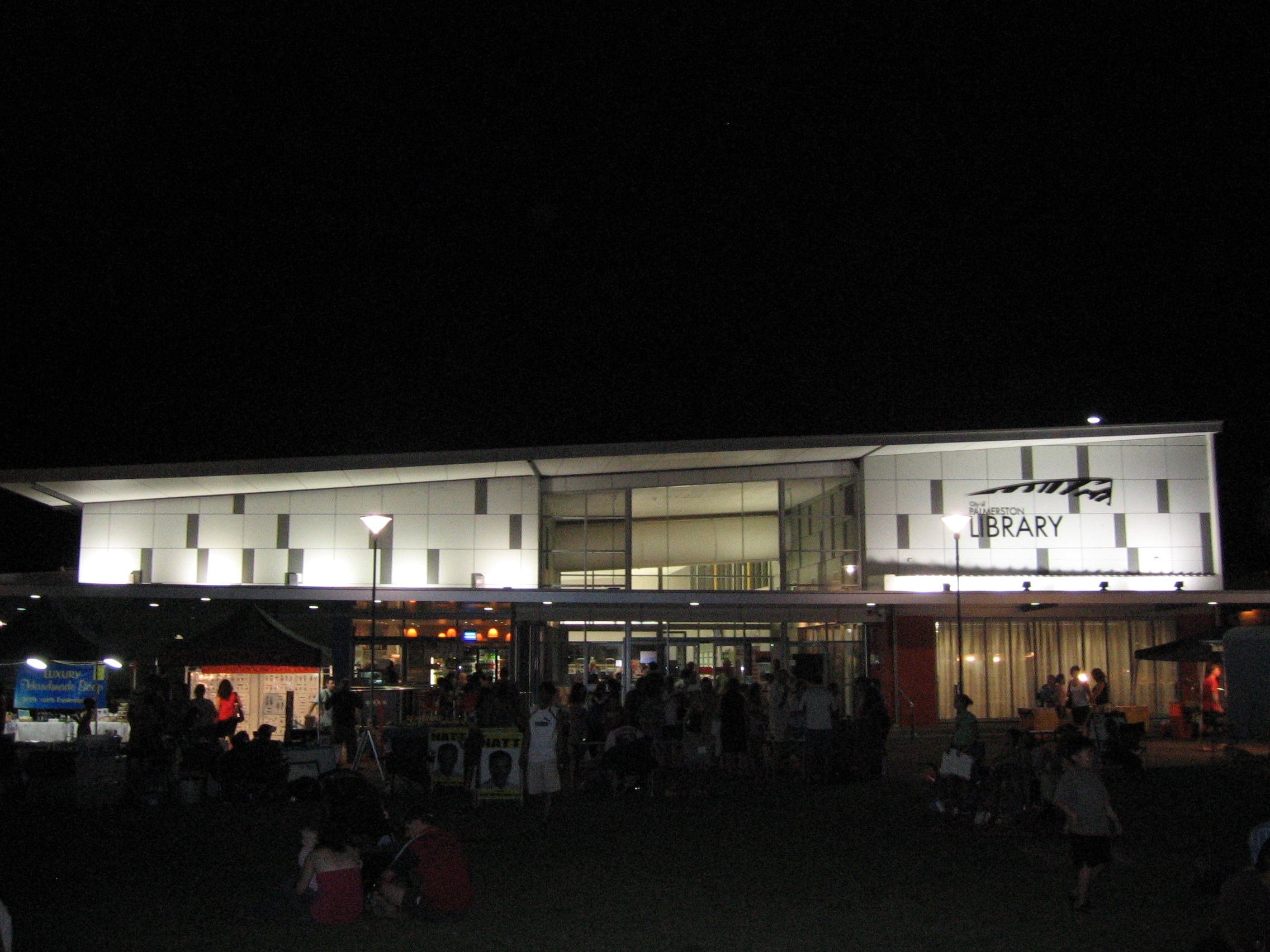 Public library at Palmerston, Northern Territory. The Palmerston markets are taking place in the foreground